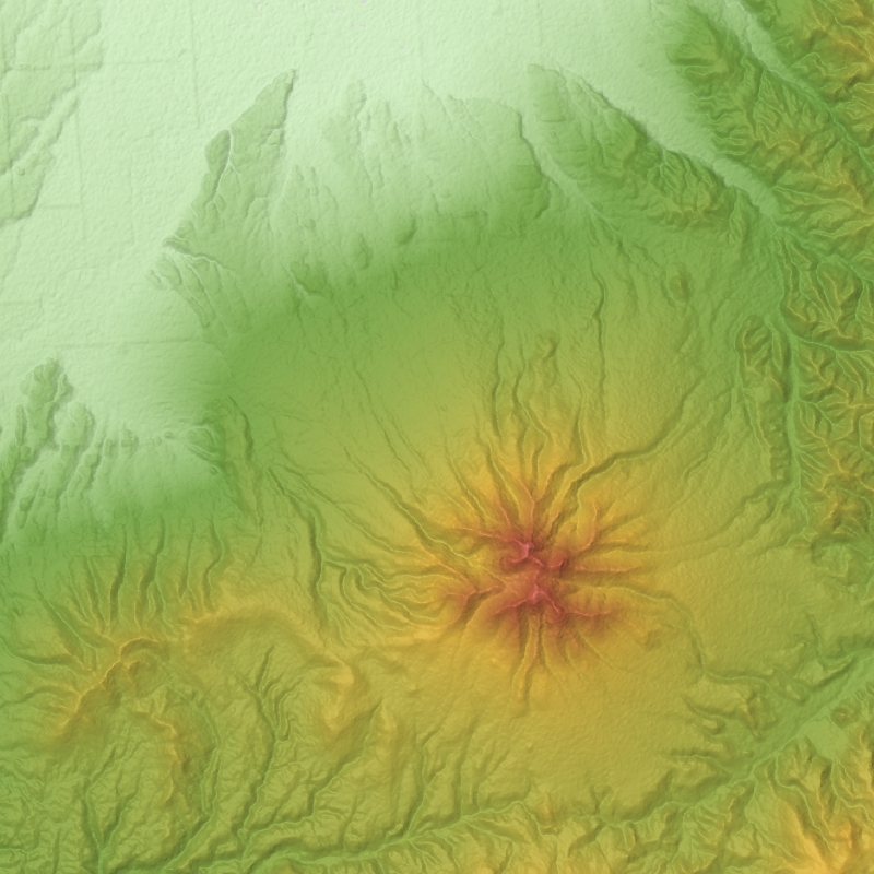 Relief map of Mount Sharidake in Hokkaido, Japan.